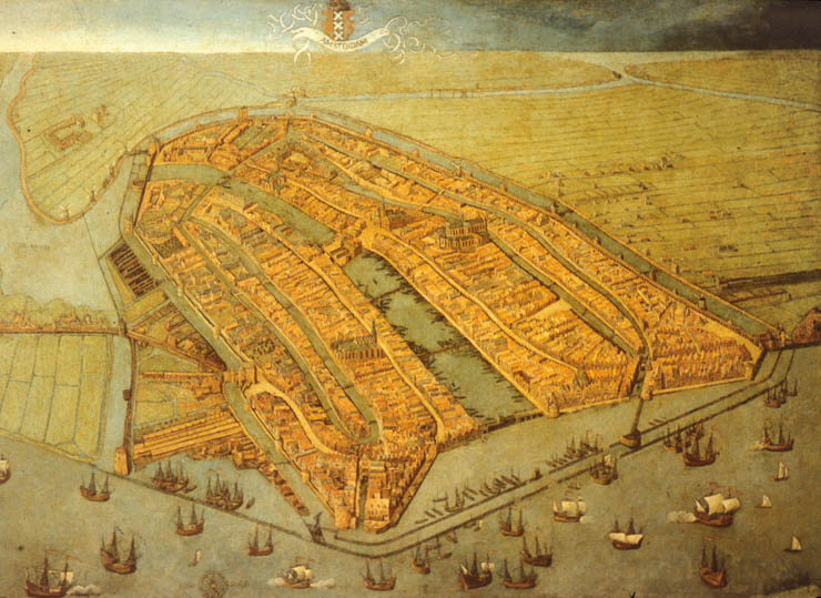 Oldest surviving map of Amsterdam, showing the city's finished medieval walls, towers and gates. Like in most old maps of Amsterdam the city is shown from the IJ, so that the view is directed to the south rather than the north.